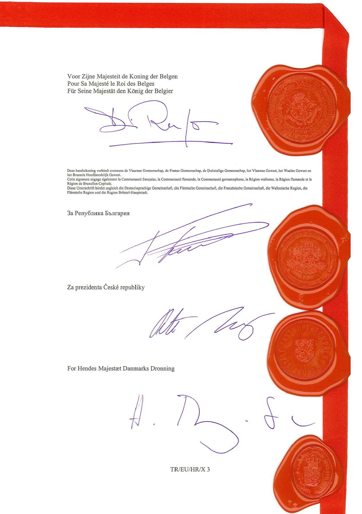 Treatys concerning the accession of the Republic of Croatia to the European Union - Signature Page